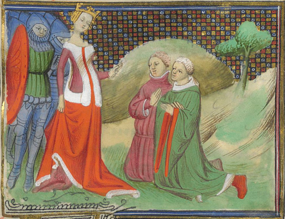 Edmund FitzAlan, 9th Earl of Arundel and Hugh Despenser the Elder (or Hugh Despenser the Younger) before Queen Isabella. 15th century manuscript illumination from Froissart's Chronicles by the Boethius Master. For more information see: The Online Froissart (accessdate 10 August 2010)